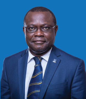 Prof. Ebenezer Oduro Owusu